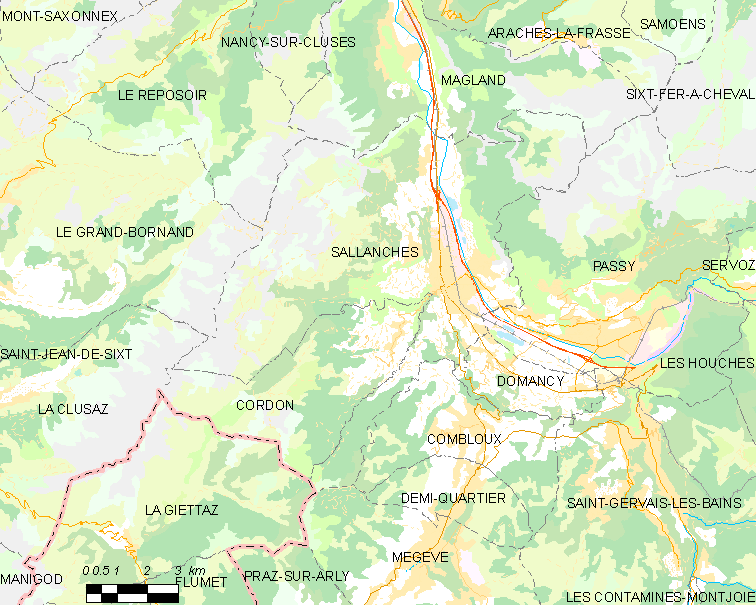 Map of French municipality Sallanches